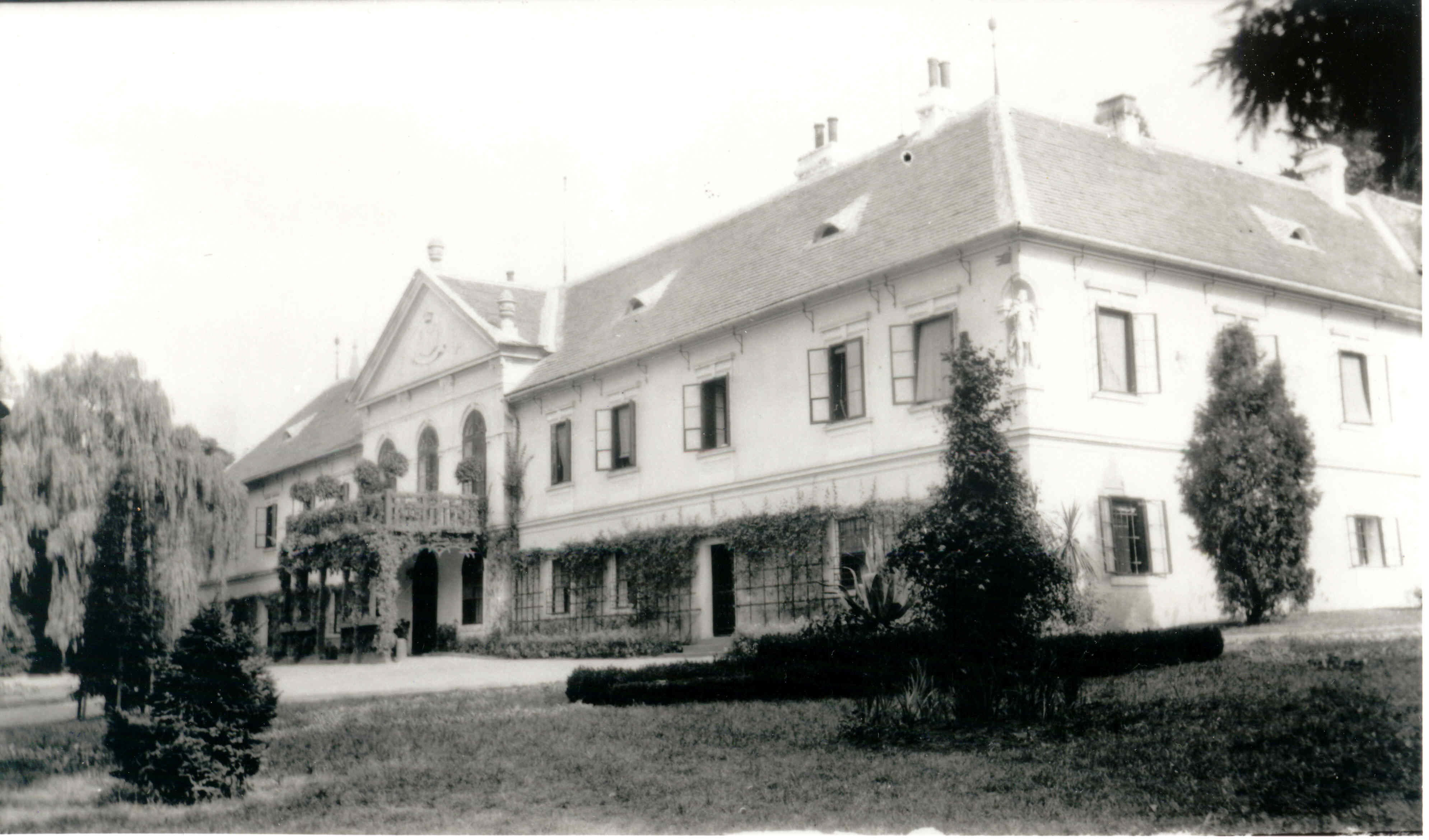 Black and white picture by Willem-Bernard Engelbrecht of the manor of his father-in.law made at the occasion of his marriage in July 1911 with Marie Karoline Julie Countess Logothetti.